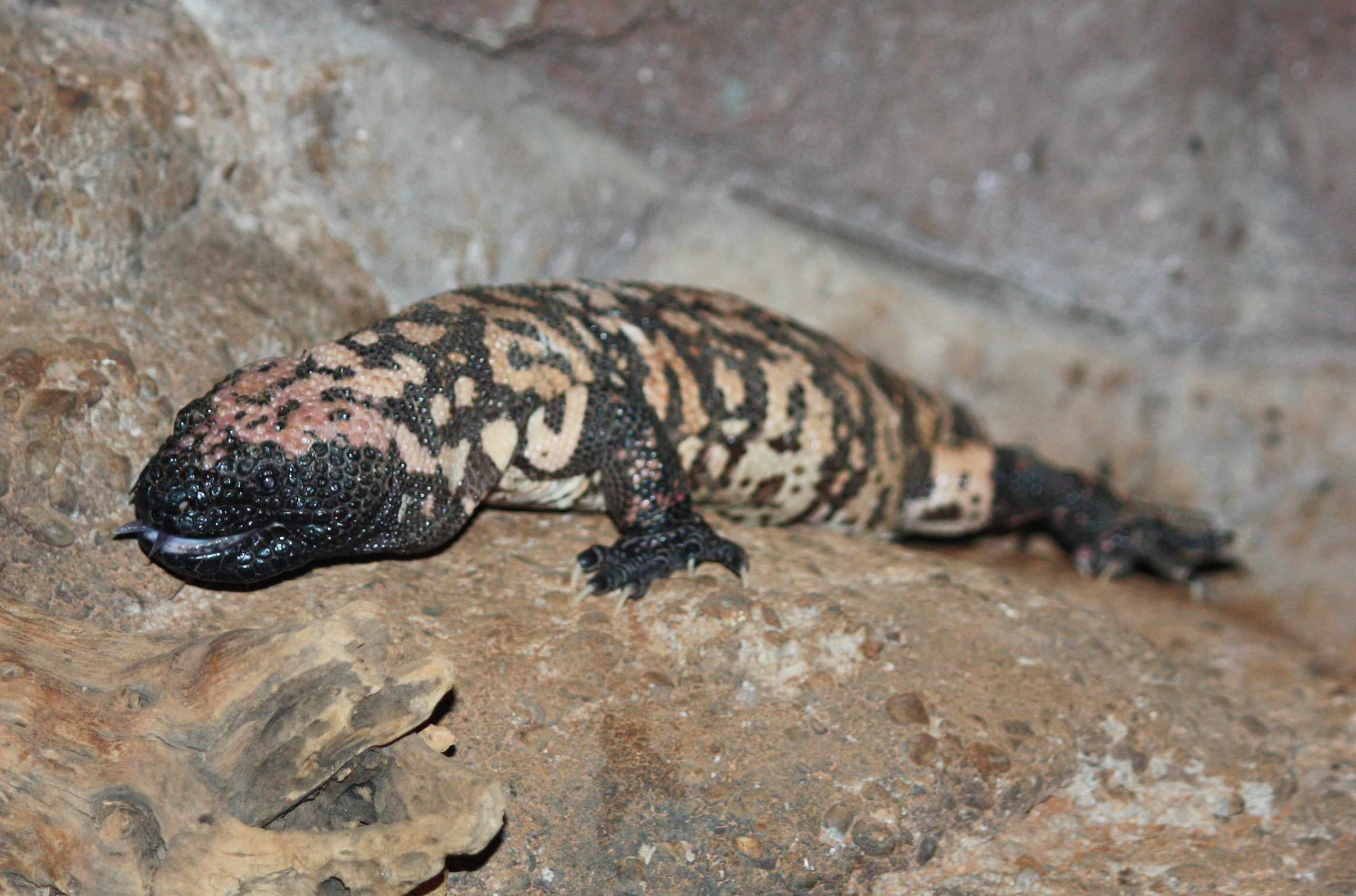 Gila Monster (Heloderma suspectum) at the Louisville Zoo